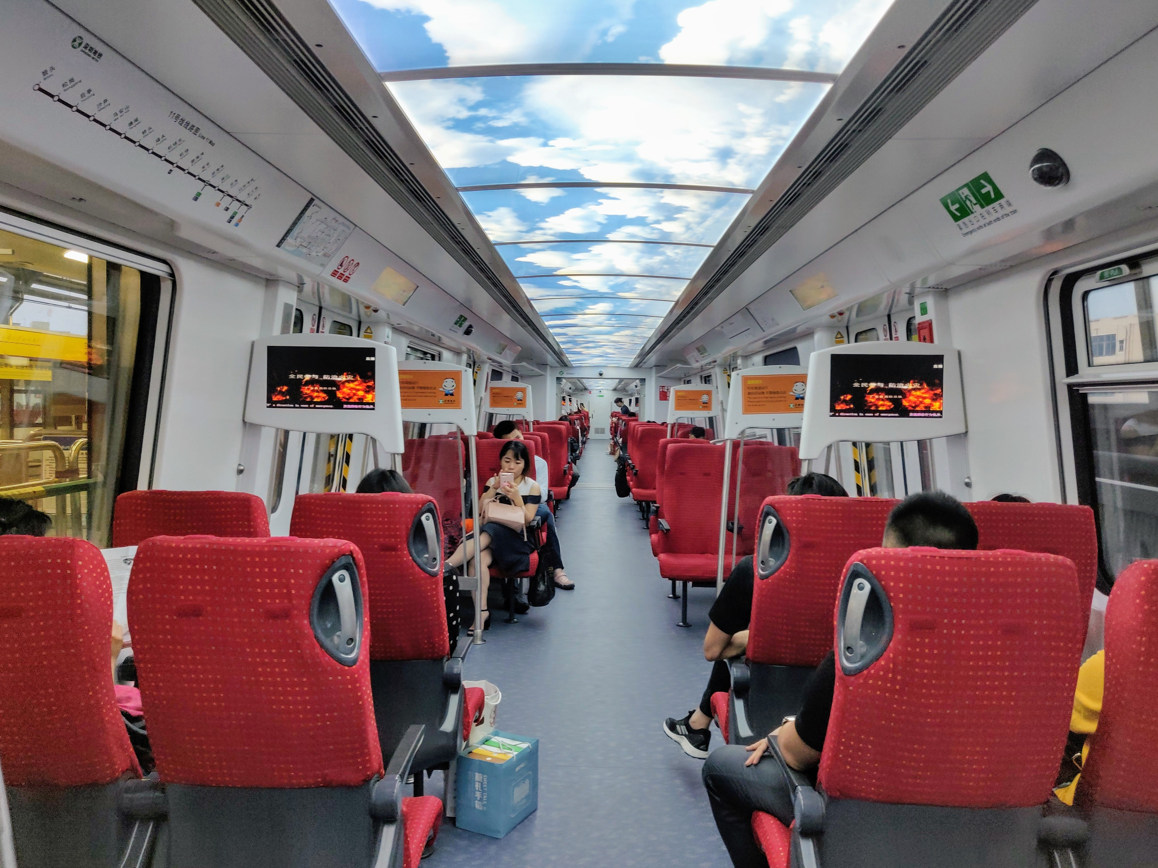 Interior of Business Class of SZMC L11 Train